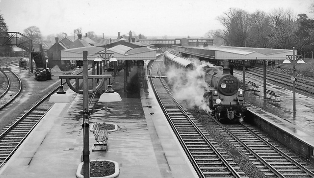 Brockenhurst Station, with train View NE, towards Southampton etc.; ex-London & South Western London - Southampton - Bournemouth main line, junction of line via Ringwood and Wimborne to Broadstone (closed 4/5/64), also of branch to Lymington Pier (still open). The train is the 10.38 stopping service Southampton - Bournemouth, headed by a BR Standard 2-6-0. (It was pouring with rain).